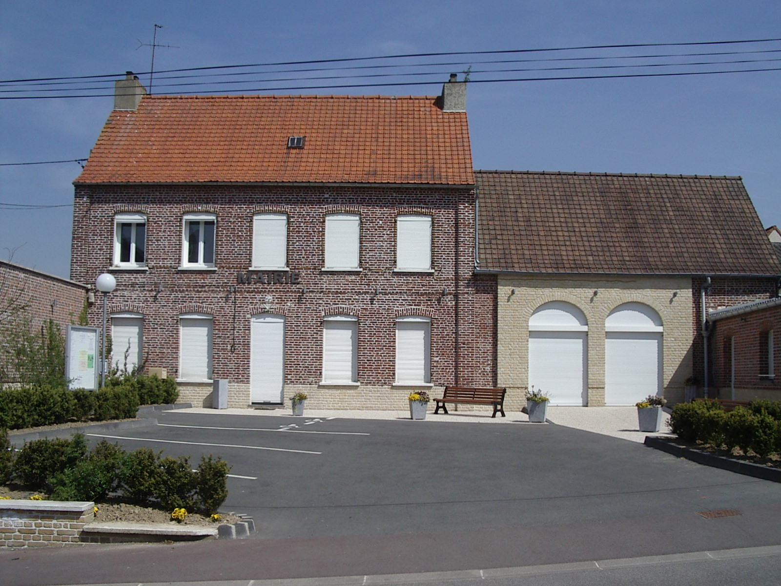 Town hall of Moulle (Pas-de-Calais, France)